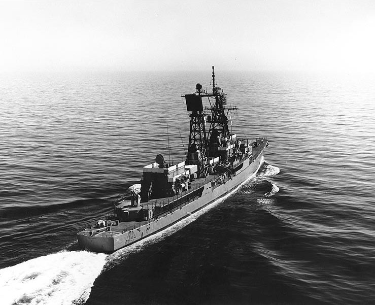 USS Decatur (DDG-31) underway in the Pacific Ocean, 24 June 1976.